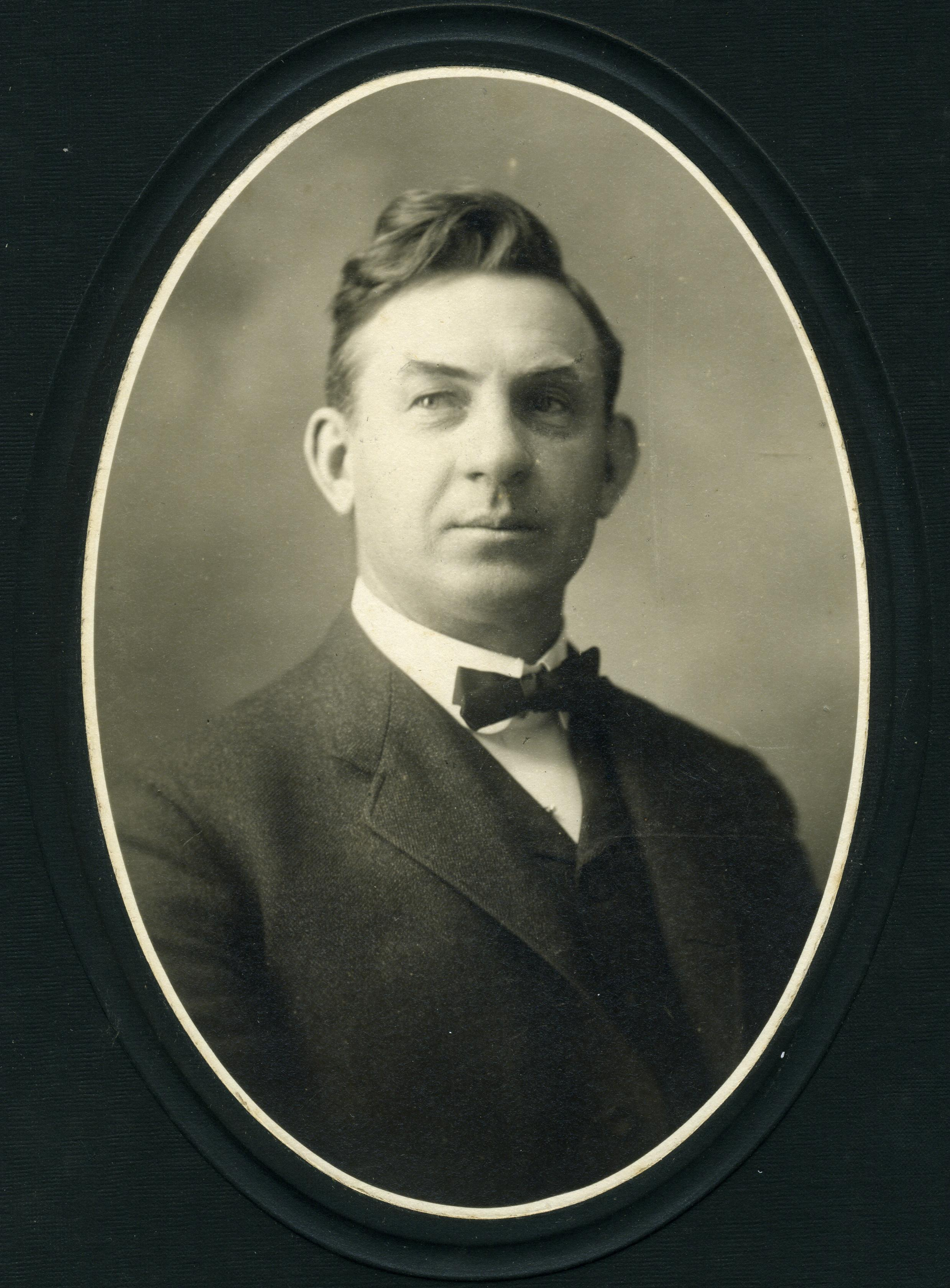 P.H. Carlyon